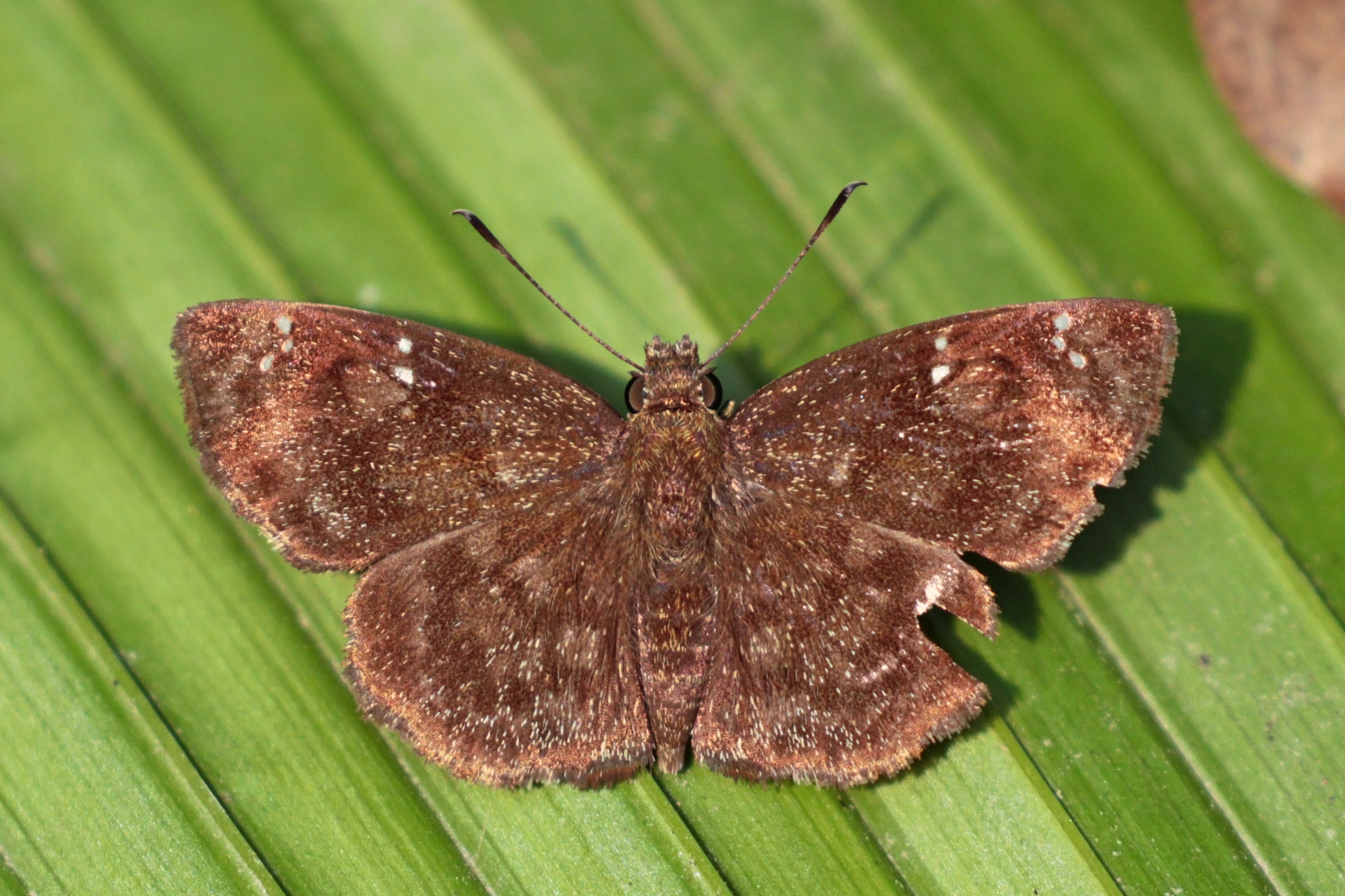 Common small flat (Sarangesa dasahara dasahara) Chtitwan, Nepal